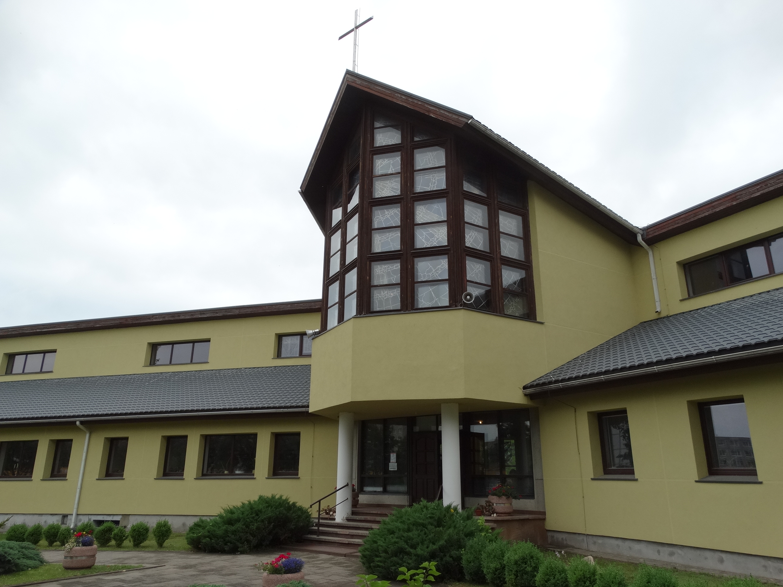 Chapel, Grigiškės, Lithuania